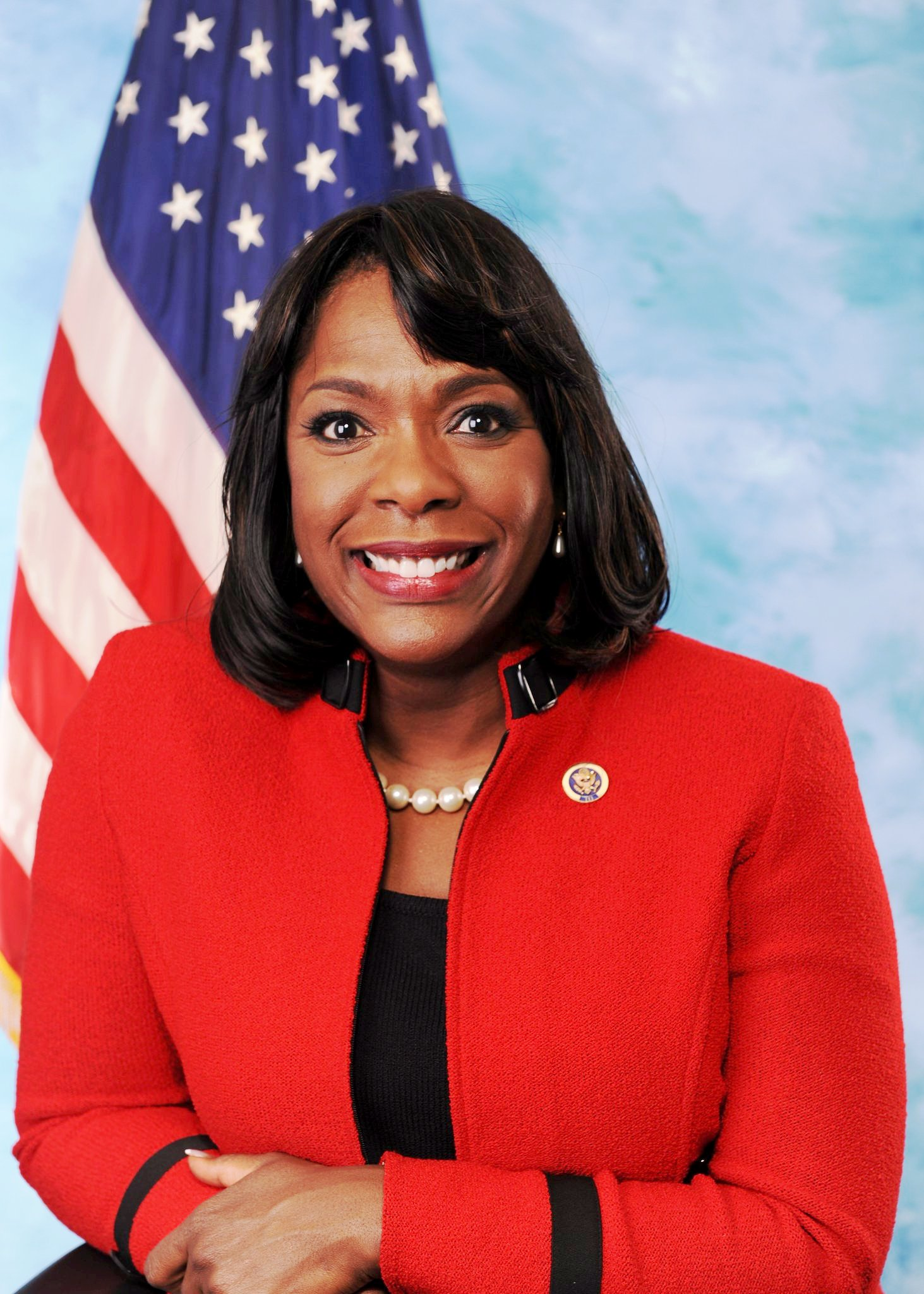 Official portrait of Rep. Terri Sewell.